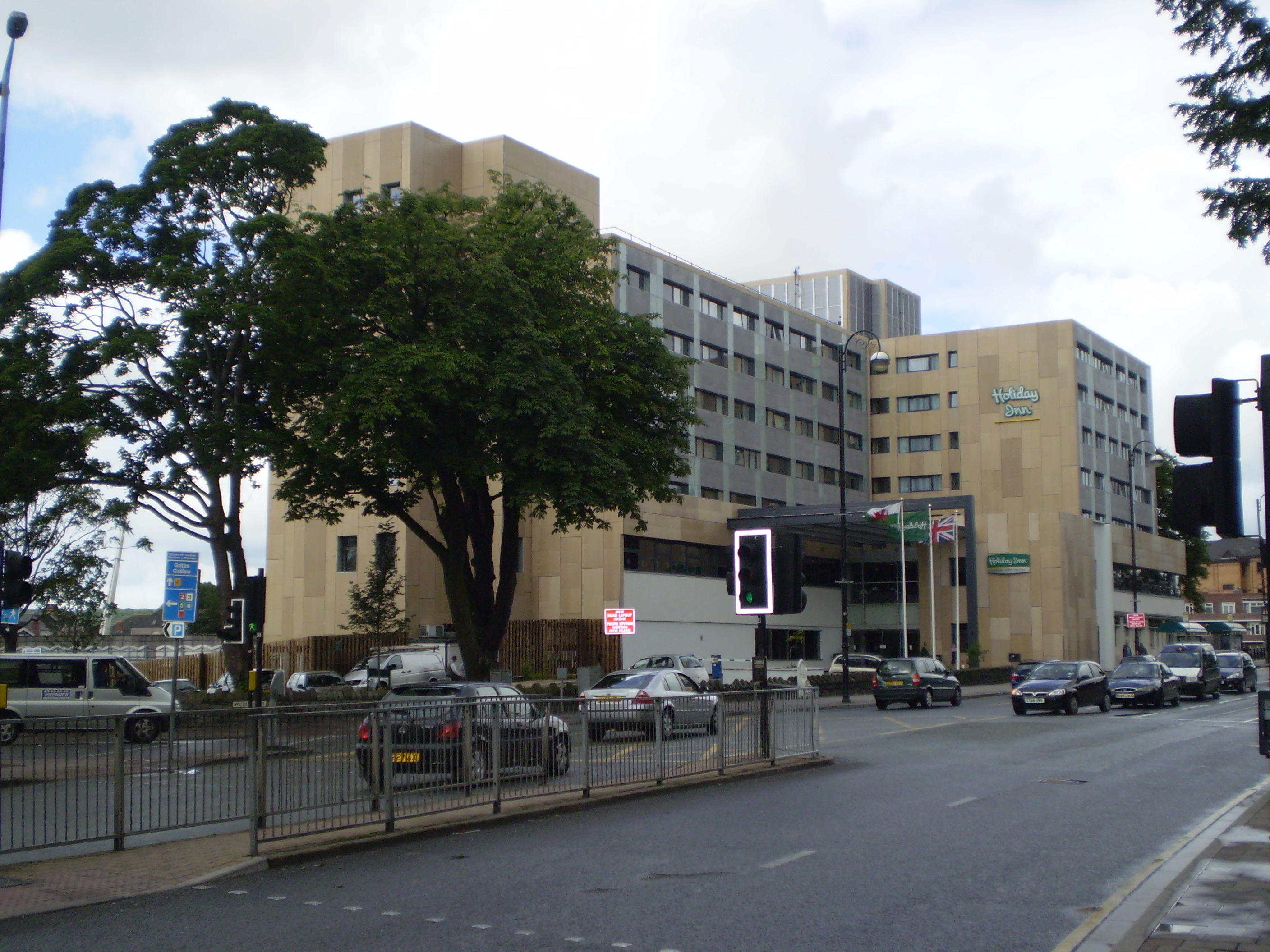 View looking towards the Holiday Inn Cardiff City Centre from Castle Street